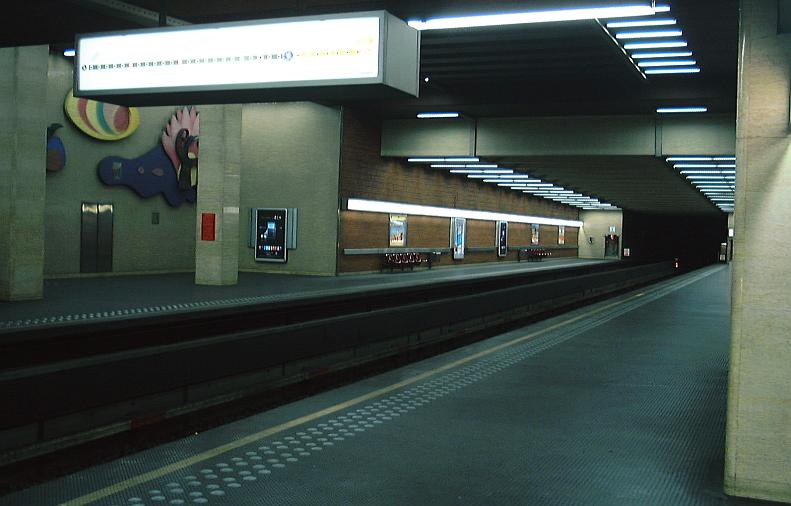 Platforms of Joséphine-Charlotte station, Brussels metro